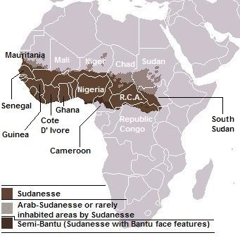 original caption of "Sudanic blacks in Africa". A self-made map apparently intending to show some kind of racial definition of "Sudanese", along with "semi-Sudanese with Bantu race features". It is unclear (unreferenced) if this is based on any kind of serious ethnographic literature. based on the use in the Greek article "Σουδανόφωνοι νέγροι" it seems to transpire that this image represents the historical racial category known in German as Sudanneger ("Sudanic blacks"). A definition is found in the Deutsches Kolonial-Lexikon of 1920, "Sudanneger nennt die Völkerkunde jene weniger somatisch als sprachlich vonden Bantu verschiedene Eingeborenengruppe Afrikas, die sich zwischen die Bantu im Süden und den Südrand der Sahara einlagert." ("Sudan-negroes is the ethnological term for that indigenous group of Africa which is not so much somatically [physiologically] but linguistically distinct from the Bantu, and whose territory is between the Bantu to the south and the southern fringes of the Sahara.") The corresponding historical category of Sudanic languages is not recognized today, but would roughly correspond to what is today known as the "Niger-Congo A" phylum. (it should also be noted that "Sudanic negroes" is strictly speaking a tautology, as already sudan (سودان) is simply the Arabic term for "negroes".)